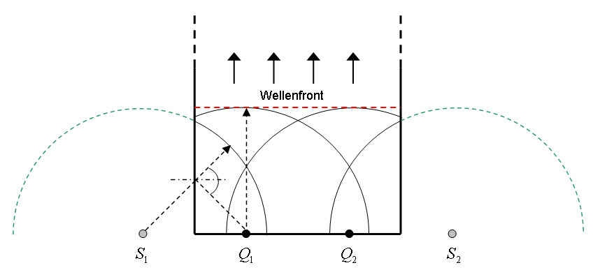 Original and mirror sources forming a plane wave.